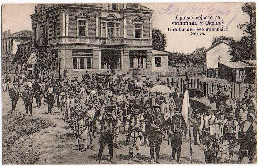 Serbian postcard, photography of Serbian Chetnik Organization in Skopje at the time of the Young Turk Revolution (1908). Trenko, Jovan Babunski, Jovan Dolgač and Gligor Sokolović seen in the front, standing to the right of the flag.